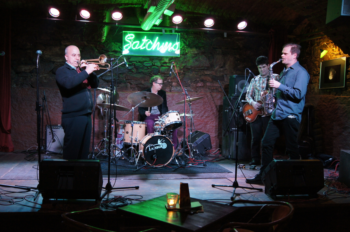 Sex Mob is an American Jazz group